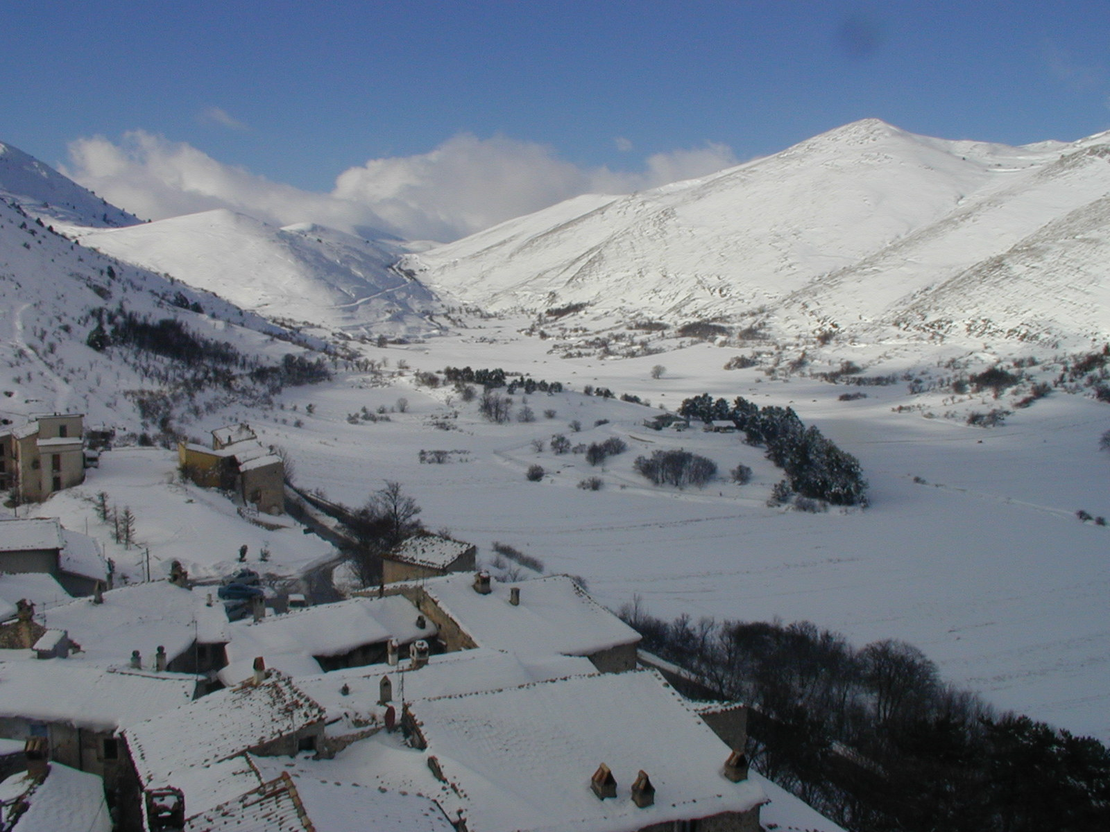 Looking out from Santo Stefano down into Gran Sasso valley towards Assergi